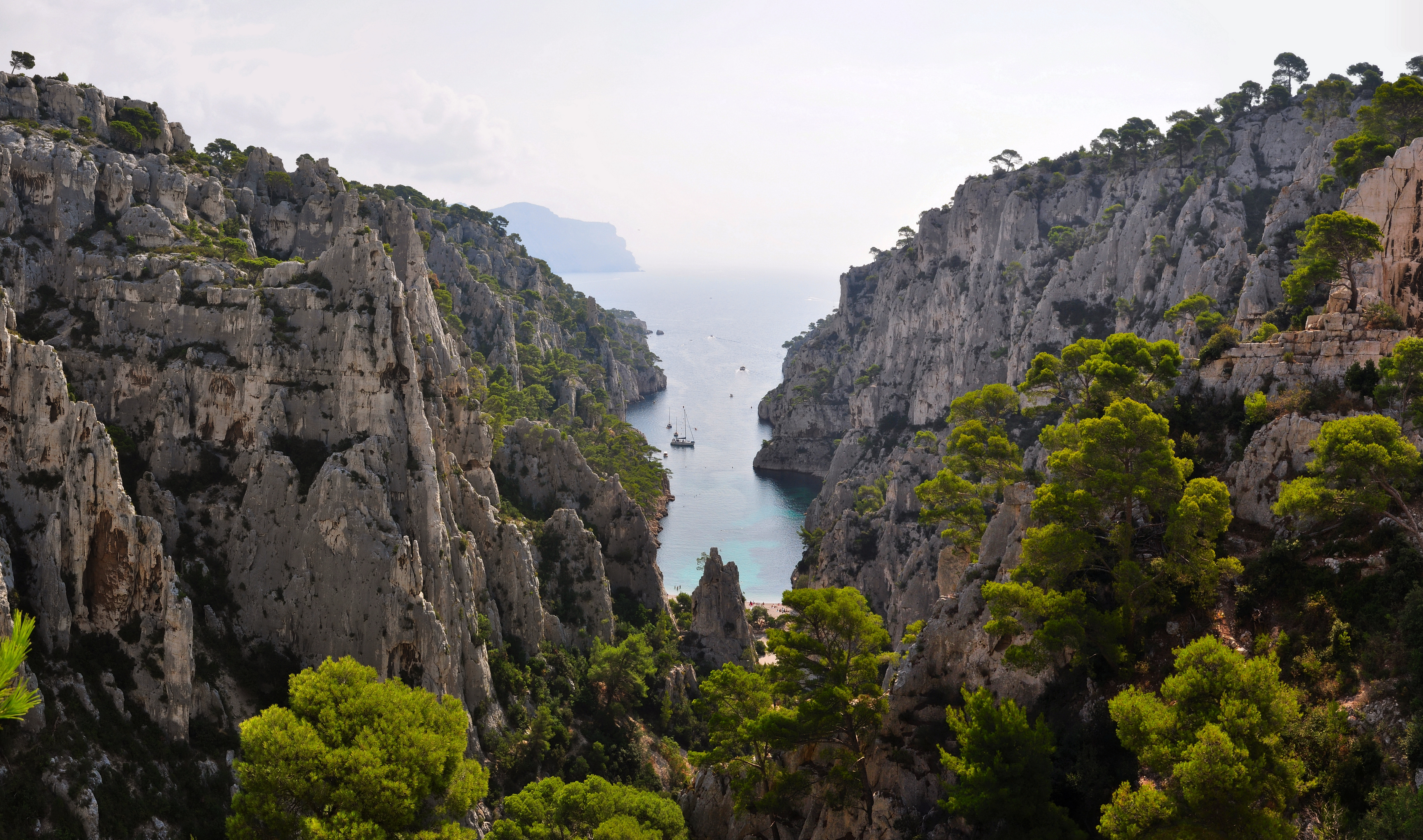 Calanque d'En-Vau (facing south-east) near Marseilles and Cassis